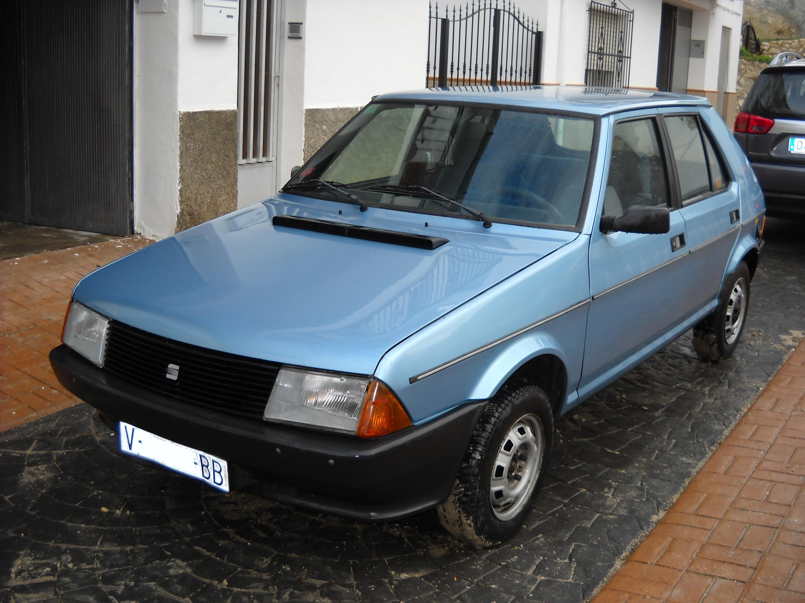 Seat Ronda front view